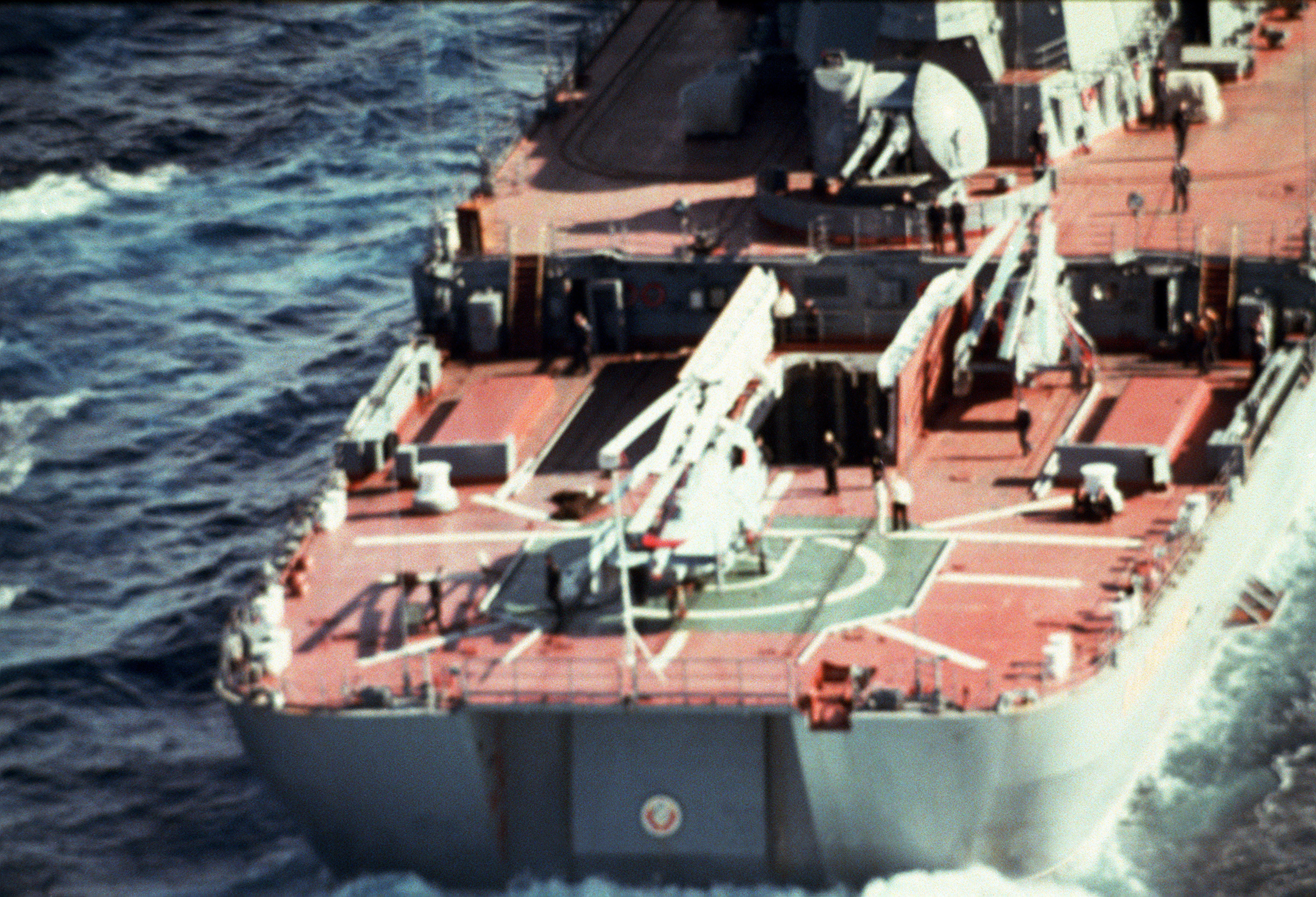 A view of the helicopter pad on the stern of the Soviet Kirov class nuclear-powered guided missile cruiser KALININ with a Ka-25 Hormone helicopter and a Ka-27 Helix helicopter aboard. (Substandard image)